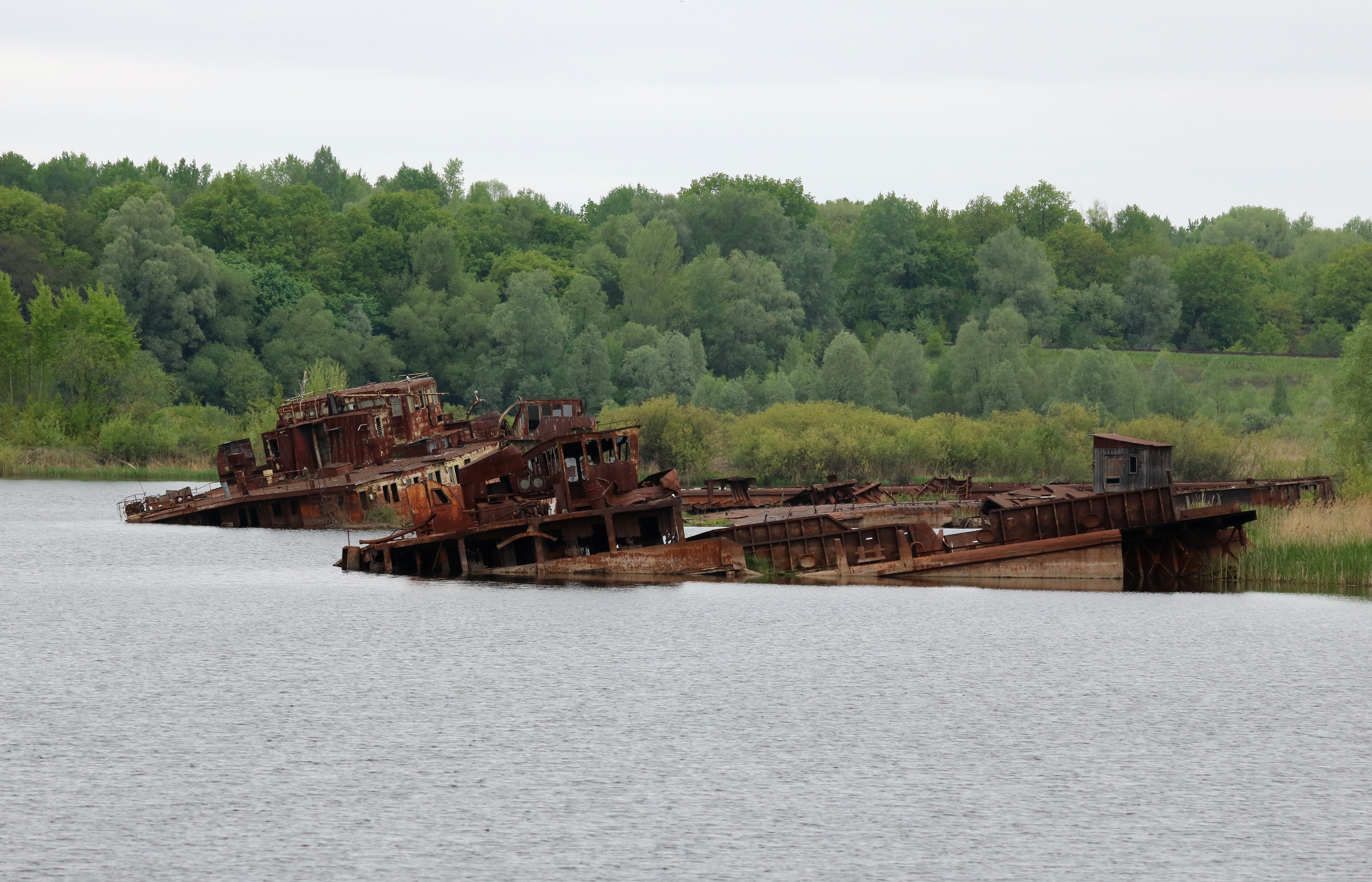 Pripyat River in Chernobyl. Abandoned shipwreck after the 1986 nuclear accident.